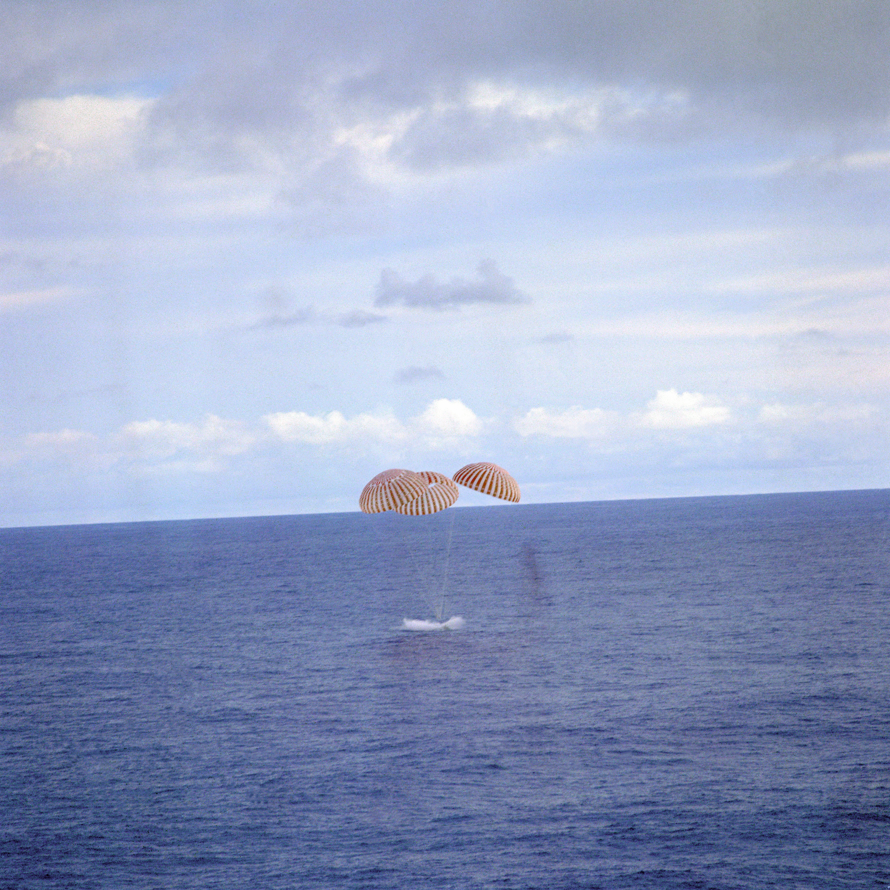 Apollo 13's successful splashdown after a harrowing trip.